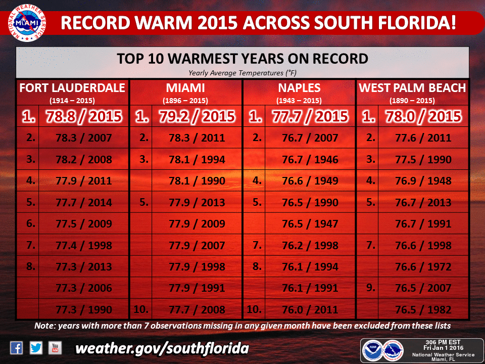 Southern part of Florida, including "South Florida", had a record smashing year with four statistically large cities beating records by a margin of .5 to one degree Fahrenheit, a wider margin than between any two other years.